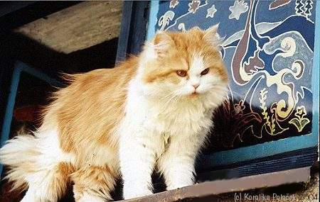 Photo of my cat Muca, summer 2004.